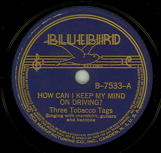 How Can I Keep My Mind on Driving? by the Three Tobacco Tags, Bluebird 1938.